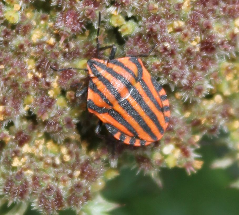 Insect (Graphosoma italicum), Spain, northeastern coast, Parc Cap de Creus